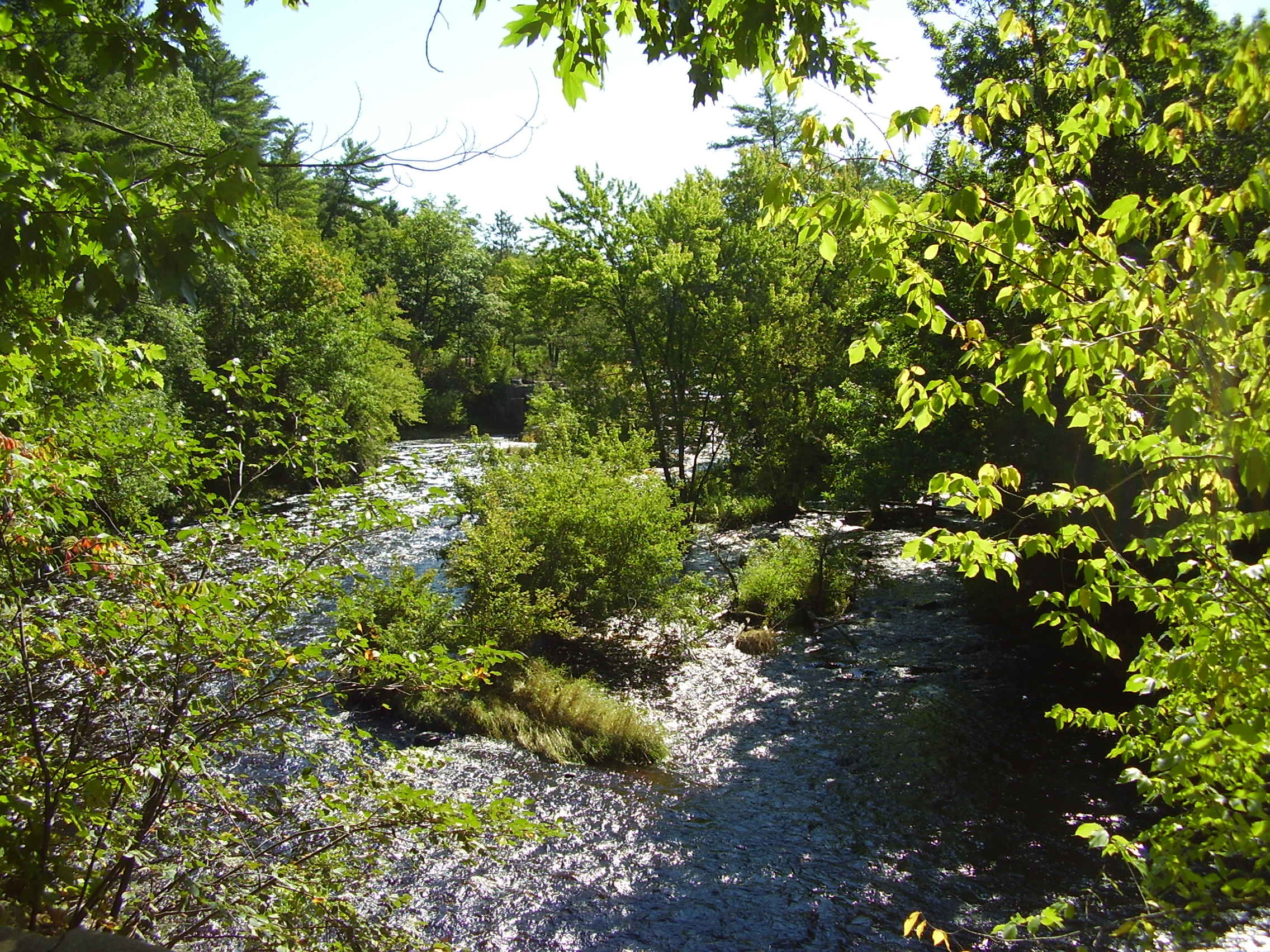 Eau Claire River, Marathon County, Wisconsin, near the dells